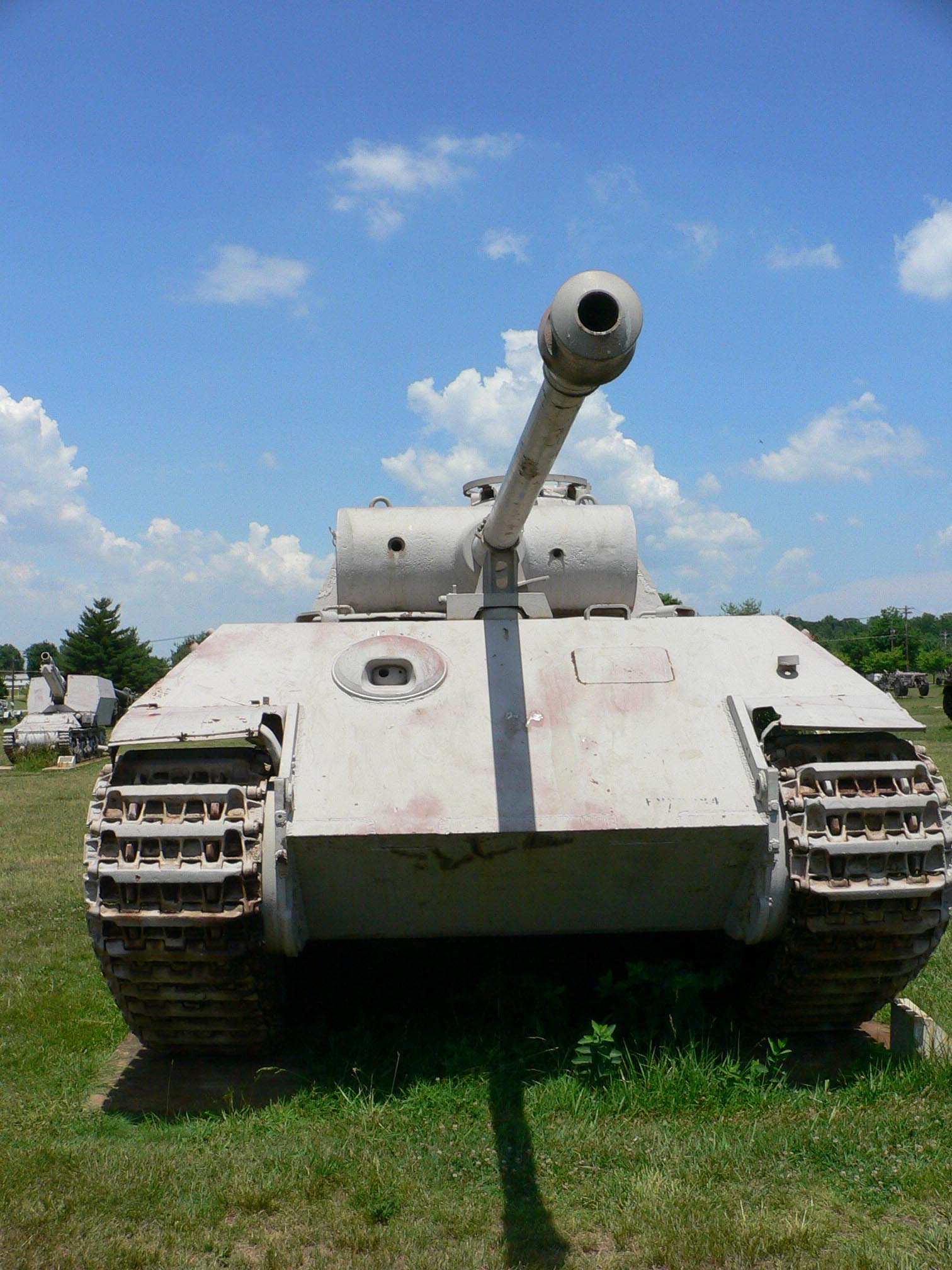 Picture taken by myself, Mark Pellegrini, at the United States Army Ordnance Museum (Aberdeen Proving Ground, MD) on June 12, 2007.